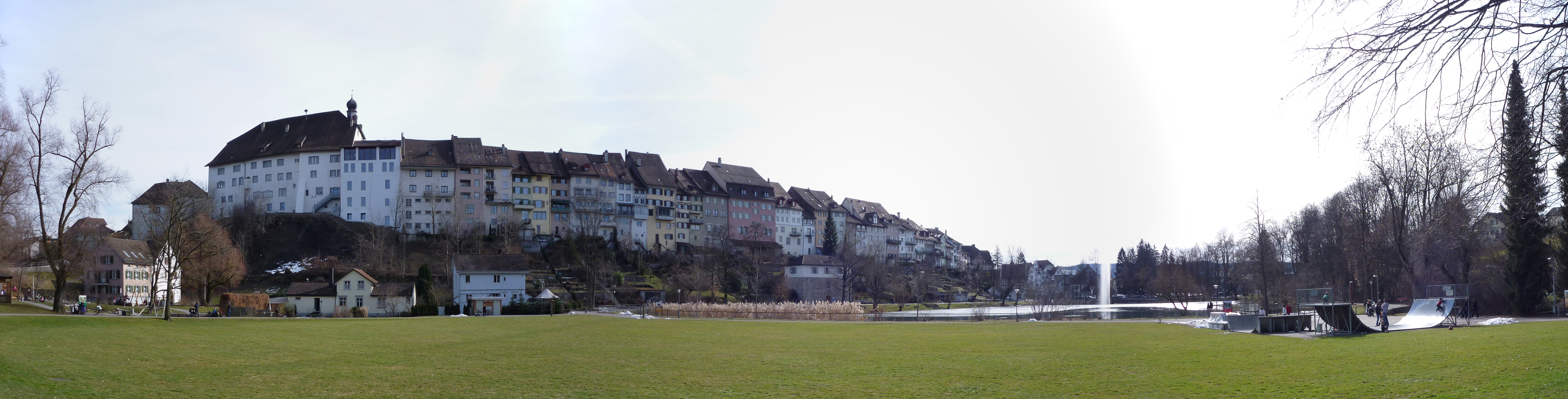 Old town of Wil and Stadtweier, view from the Stadtweier park